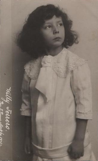 The portrait of dirigent Willy Ferrero (1906—1954) as child prodigy